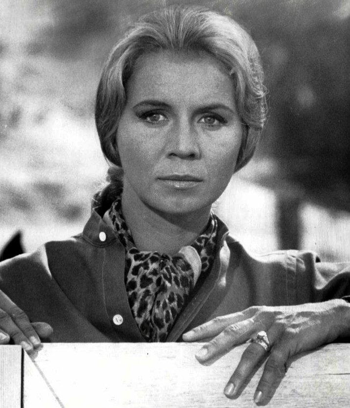 Photo of Salome Jens from an appearance on the television program Stoney Burke.